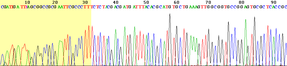 Example of (the start of) a Sanger sequencing read. The four bases are detected using different fluorescent labels. These are detected and represented as 'peaks' of different colours, which can then be interpreted to determine the base sequence, shown at the top. This read is from the Rms149 plasmid sequencing project, and used dye terminater chemistry. The region on the left with a cream background has been identified as vector sequence. (To avoid confusion, the display program's control panels have been cropped away.)